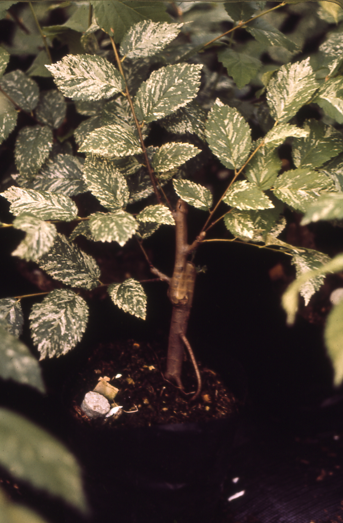 Ulmus campestris 'ARGENTEOVARIEGATA' grafted on U. glabra understock (Van Vliet boomkwekerij, Boskoop, July 11, 1984, photo Mihailo Grbić)